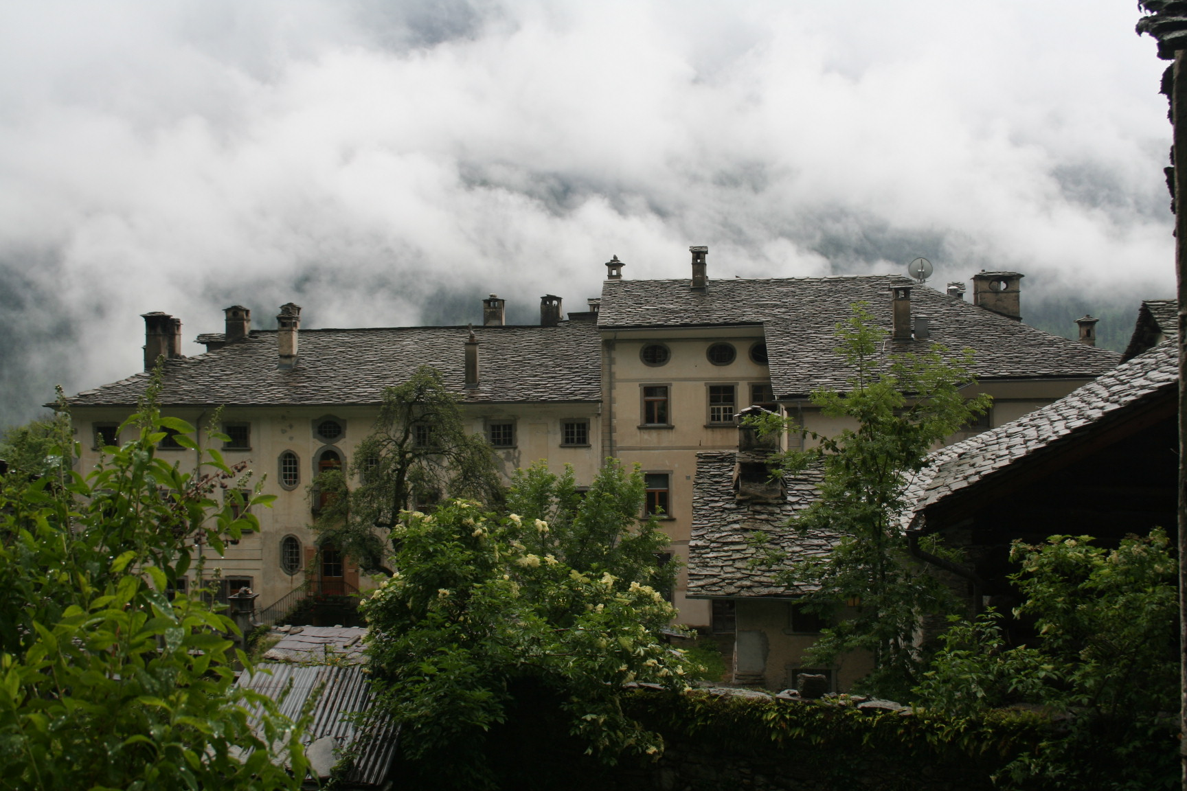 My photo (Rodolph (talk) 20:19, 4 March 2014 (UTC)) of Casa Antonio & Casa di Mezzo, Soglio, from the back/west, June 2009.jpg Casa Antonio and Casa di Mezzo, Soglio, from the back-west, June 2009.